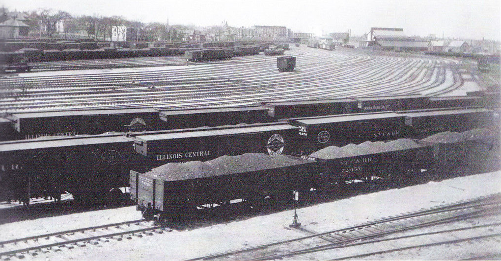 Beacon Park Yard photographed from the coaling trestle around 1900. A variety of 1890s-built boxcars and hoppers are visible.